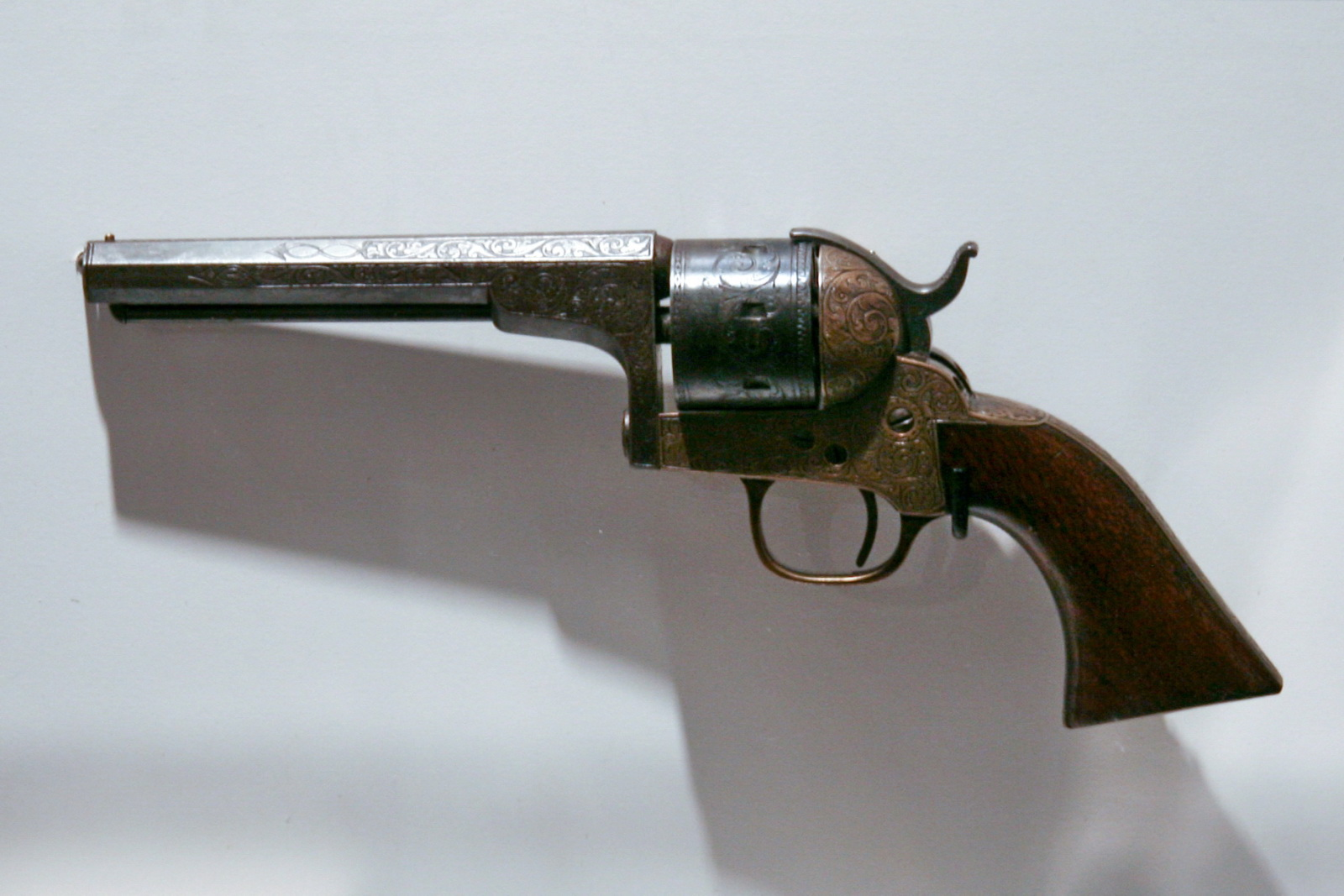 Revolver, Seven-Shot, 32-Caliber, "Moore's Single Action Belt Revolver." Moore's Patent Firearms Company, Brooklyn, N.Y., Serial Number 60 with Decorative Scroll Engraving, C. 1861. The revolver is marked " Col. Abrm. Duryee 5th Regt. NYSV." Abram Duryee organized the Duryee's Zouaves (5ht New York) in 1861 and fought at the Battle of Big Bethel. He was promoted to brigadier general on August 31, 1861.